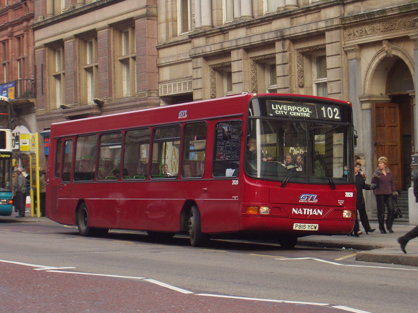 Dennis Dart SLF bus with Wright Crusader bodywork, operated by GTL (later to become Stagecoach Merseyside). Pictured on Castle Street, Liverpool.